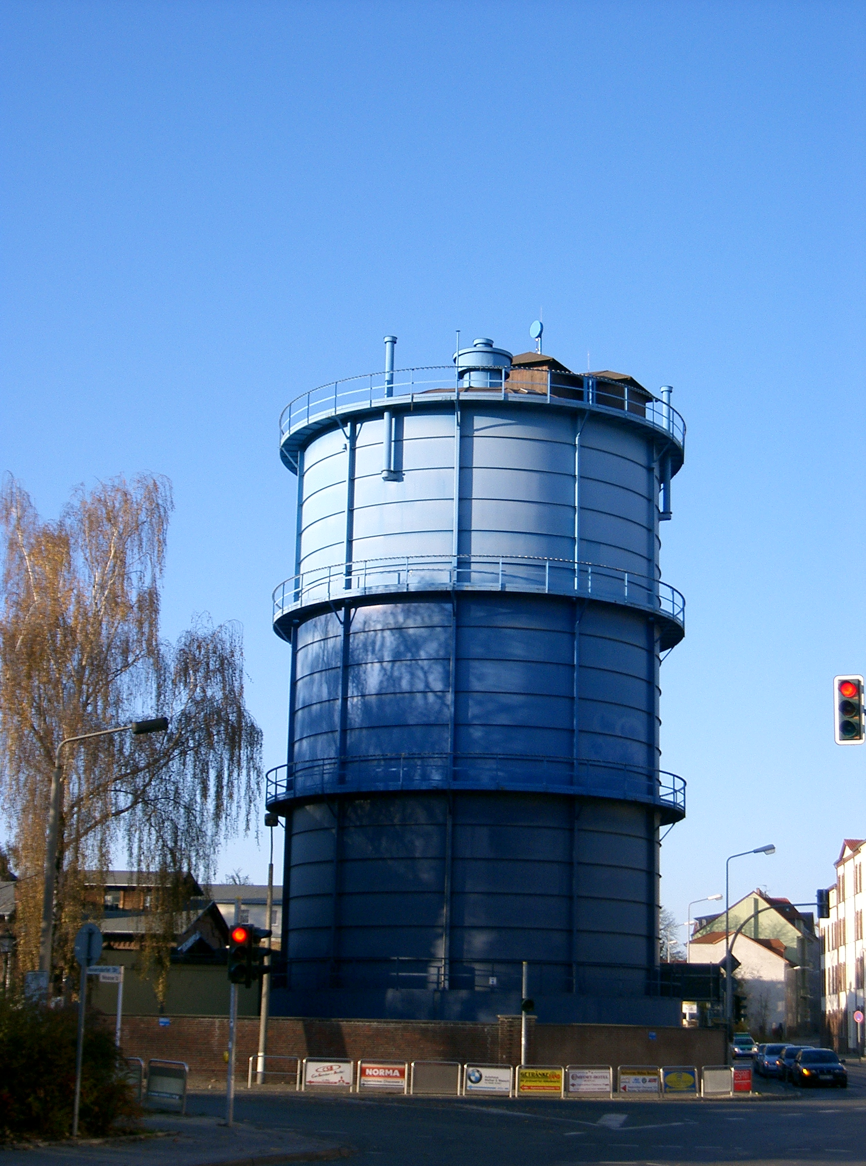 Gasometer in the german city Bernau bei Berlin.